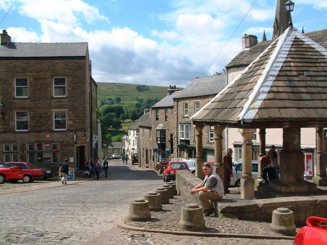 Alston Market Cross